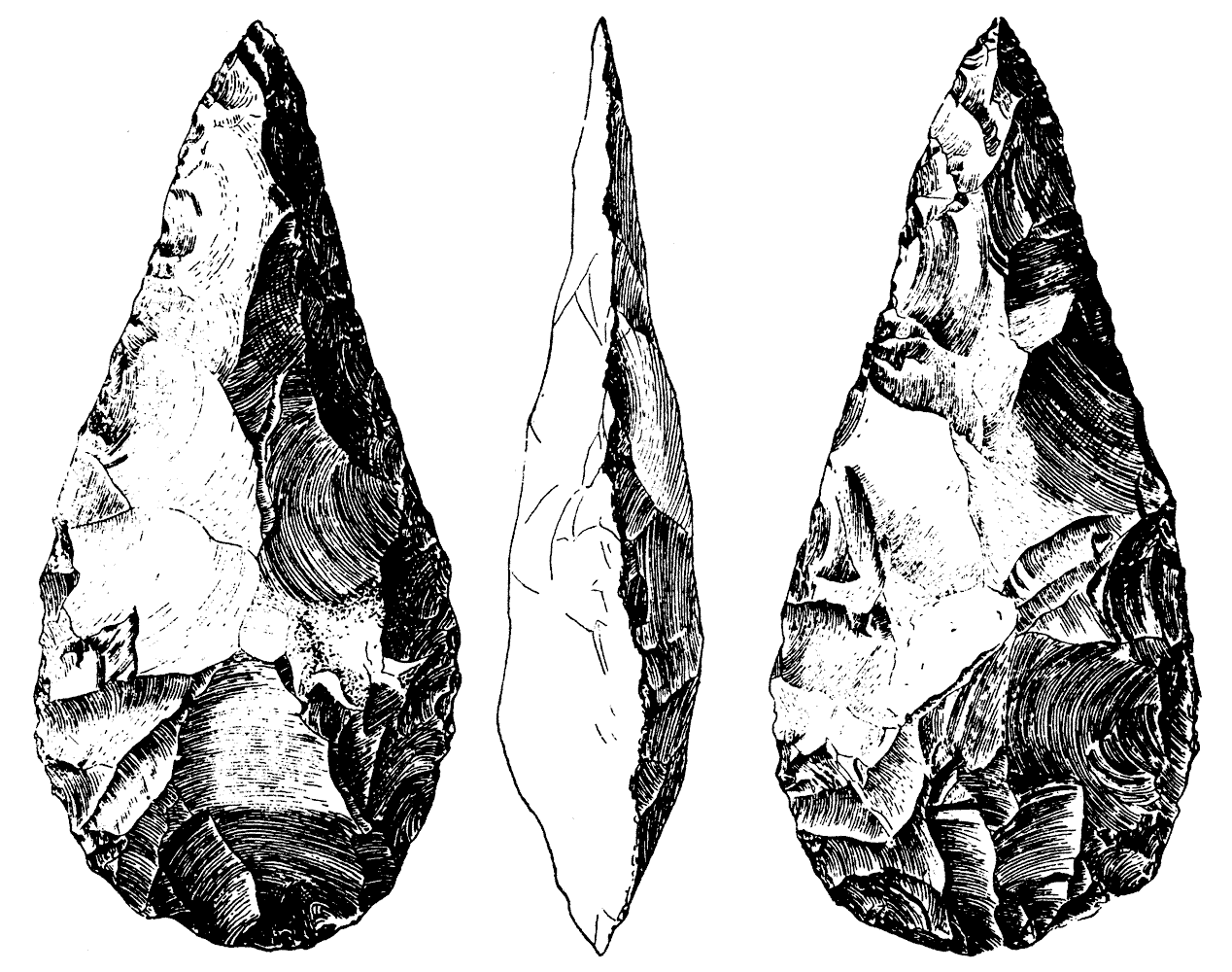 Lanceolate hand axe from the acheulean site of San Isidro, Madrid, Spain